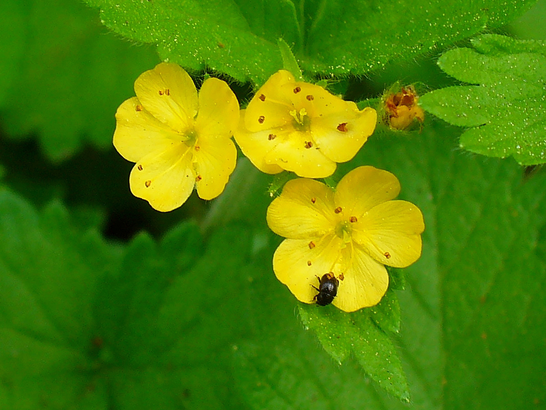 Bastard Agrimony, flowers; Botanical Garden KIT, Karlsruhe, Germany.